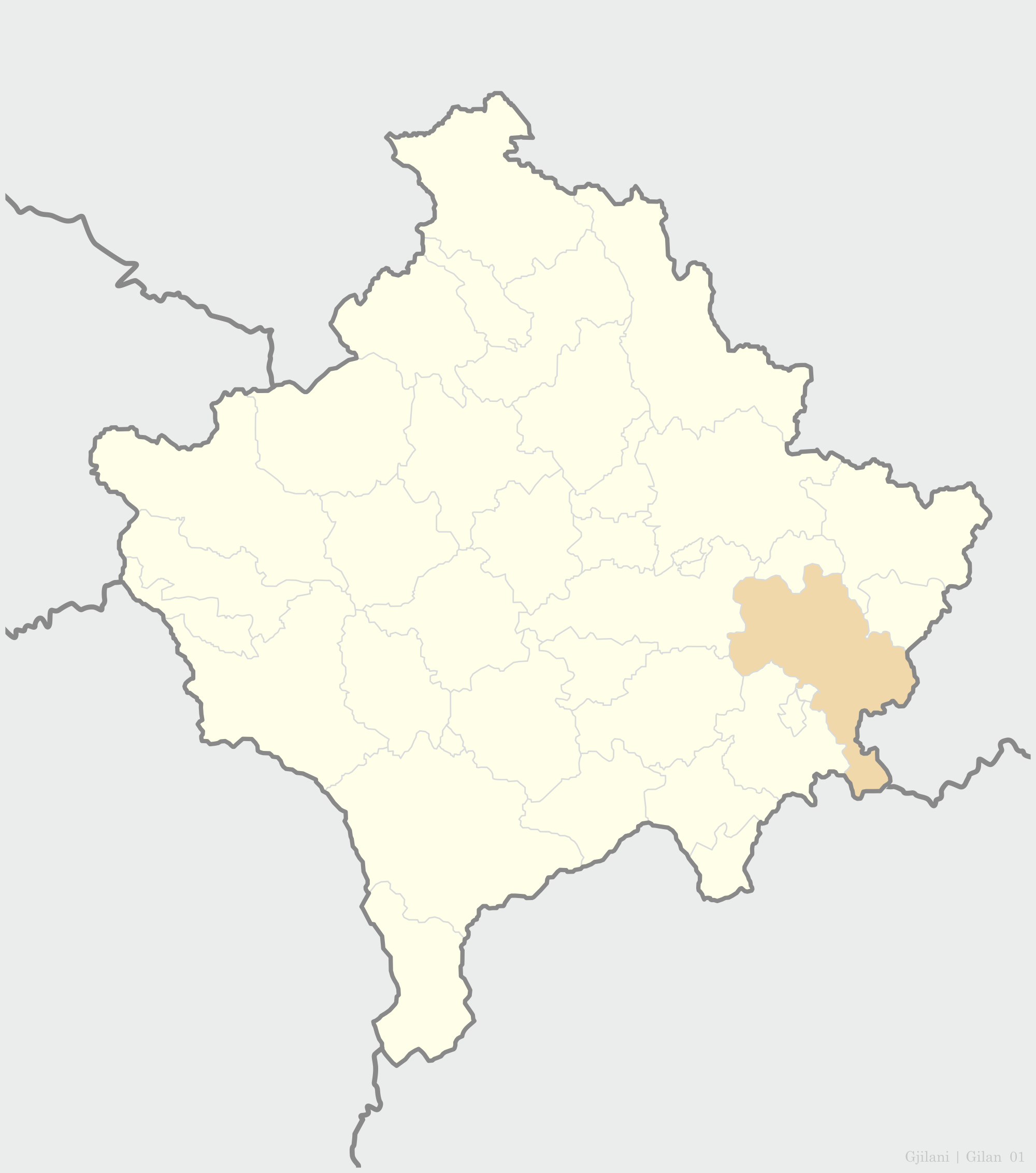 Municipality of Gnjilane map